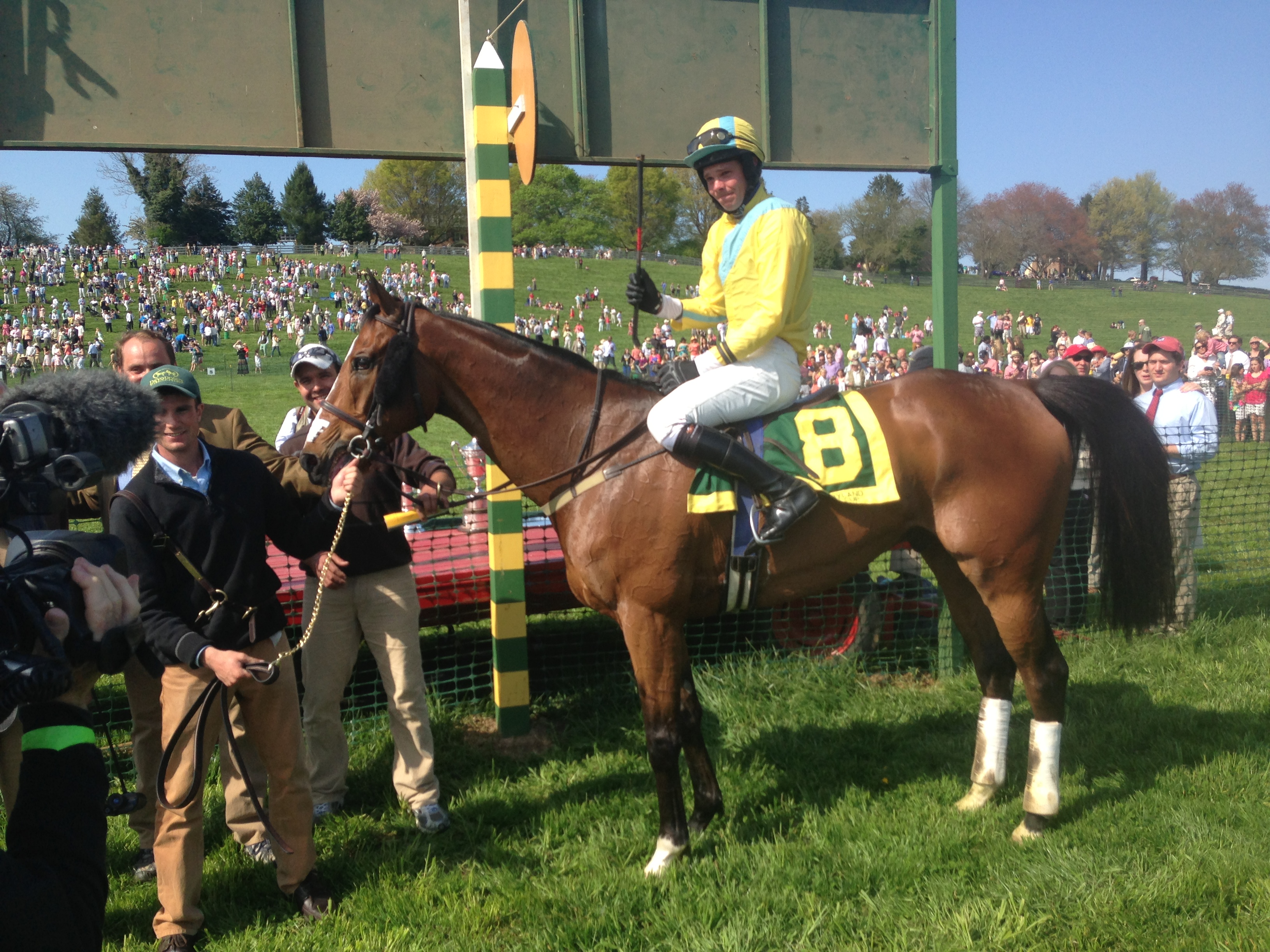 Author, Alex Brown.